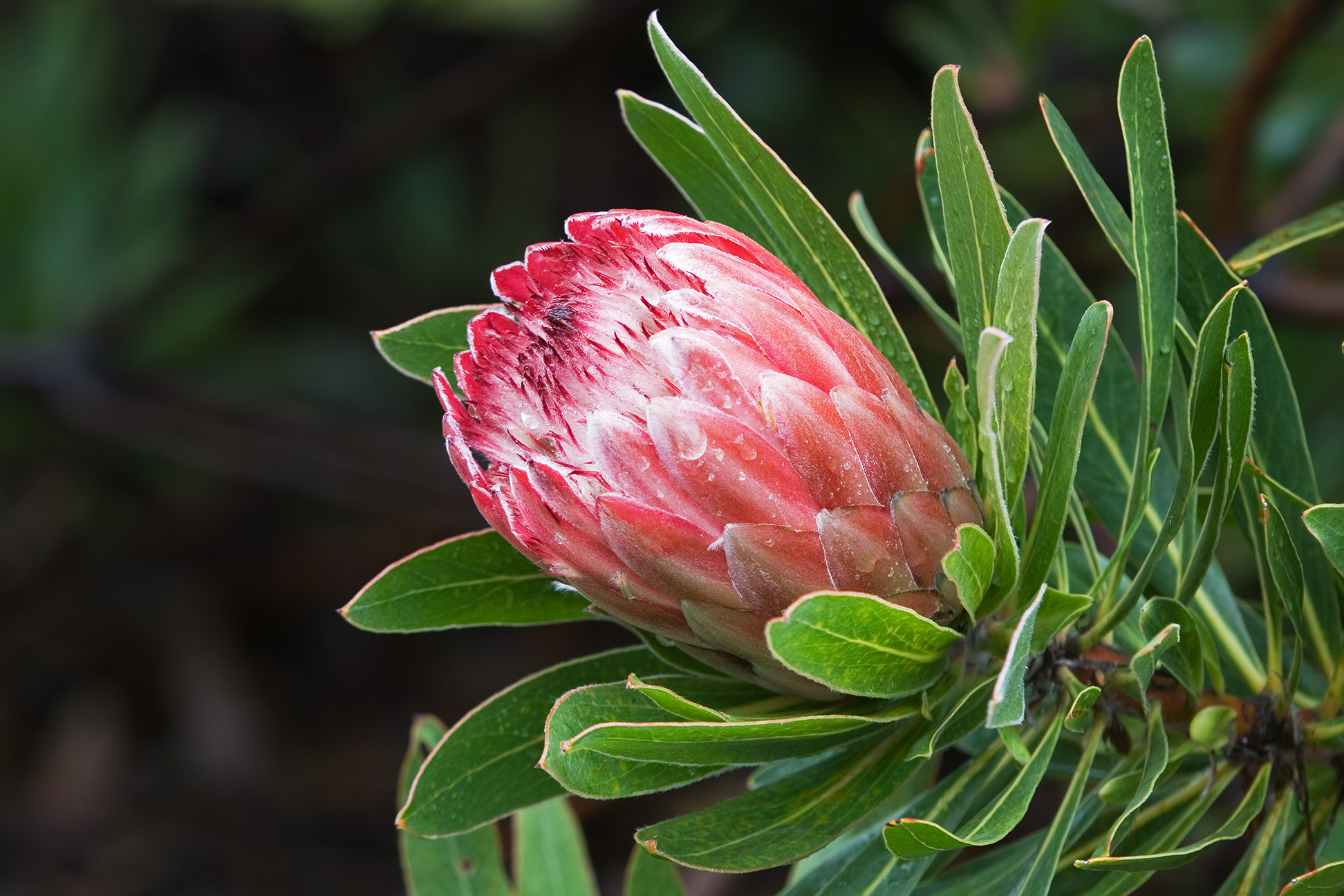 Protea 'Pink Ice', Royal Tasmanian Botanical Gardens, Tasmania, Australia Camera data Camera Canon EOS 400D Lens Tamron EF 180mm f3.5 1:1 Macro Focal length 180 mm Aperture f/5.6 Exposure time 1/20 s Sensivity ISO 100